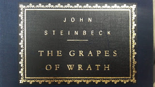 Cover of "The Grapes of Wrath" book